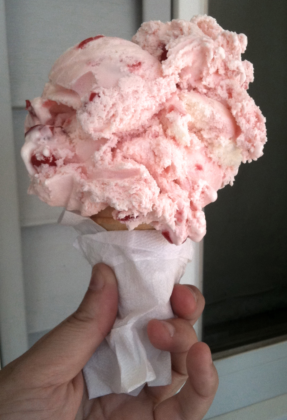 Perfect treat after a hot day at the lake..